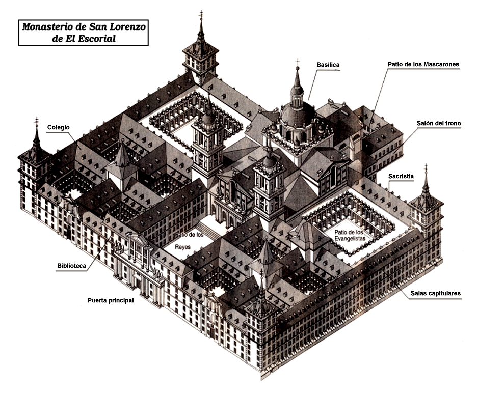 An overview of the monastery of El Escorial is one of 10 plates commissioned by Juan de Herrera in 1589 to the Flemish engraver Pierre Perret